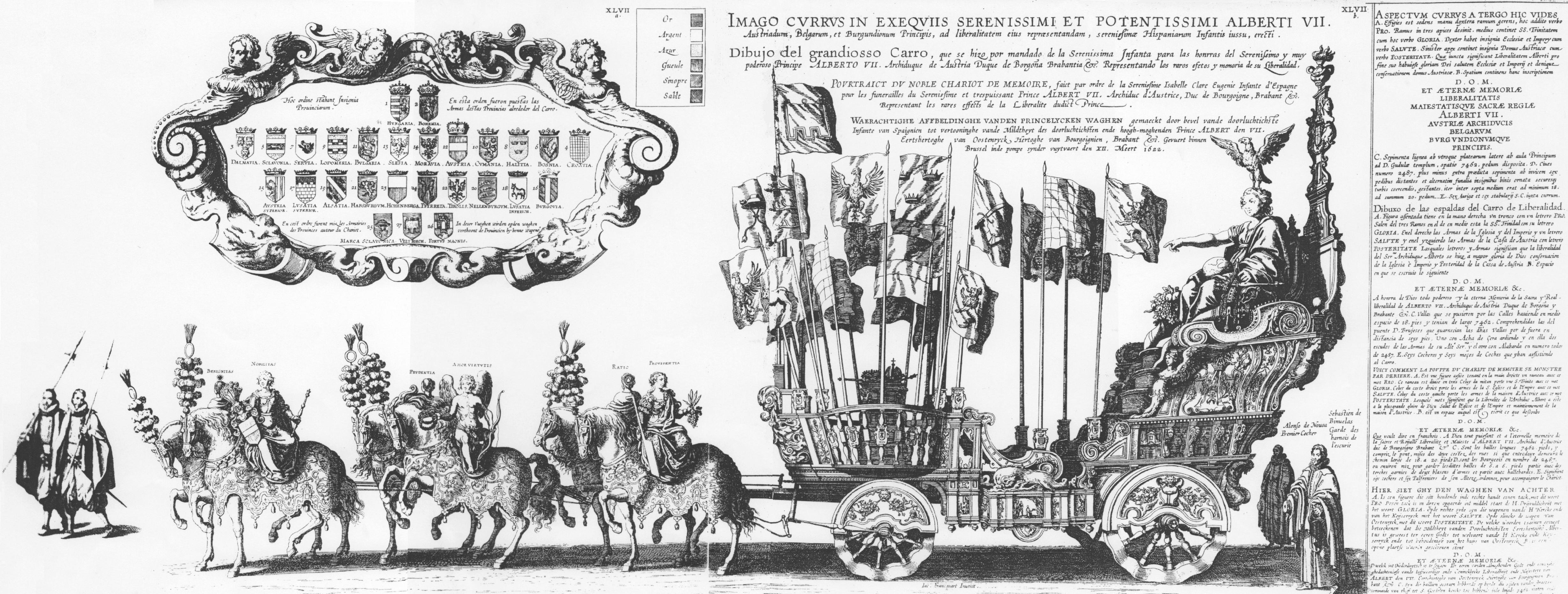 The 1622 funeral procession of Albert VII, Archduke of Austria.